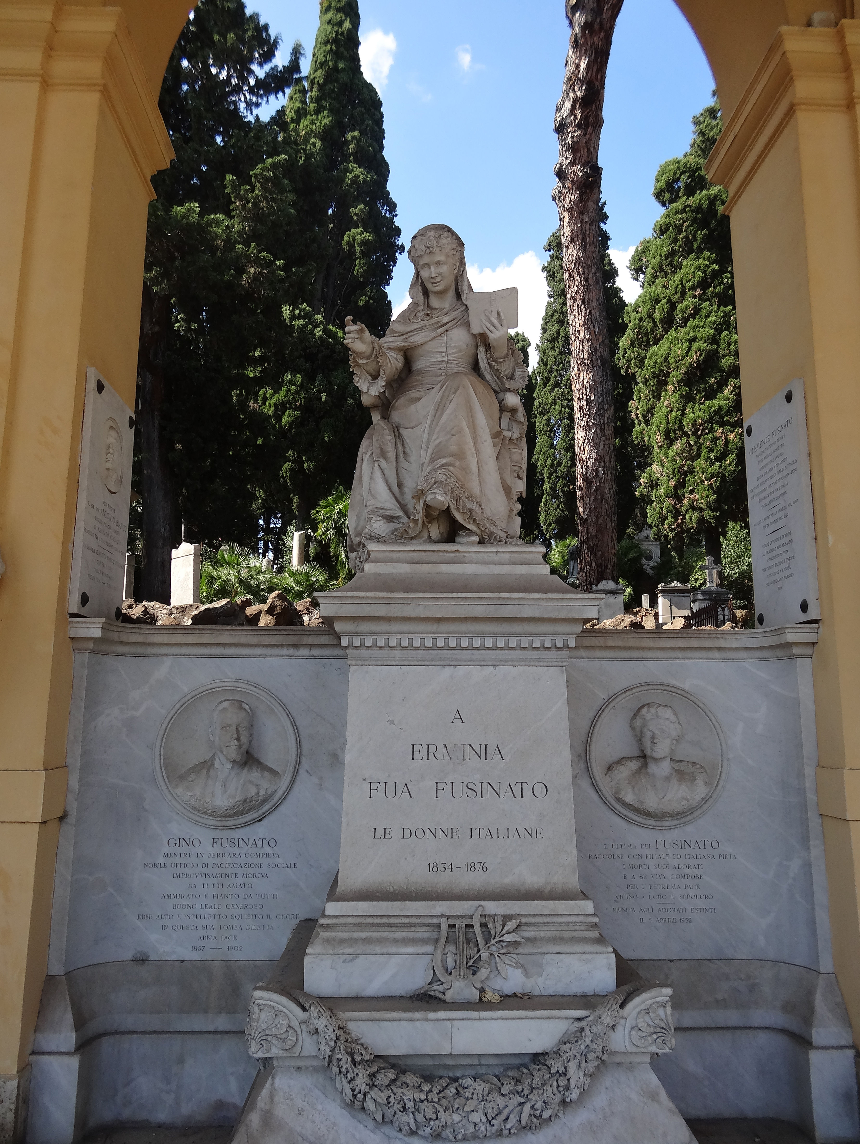 Erminia Fuà Fusinato 's Tomb